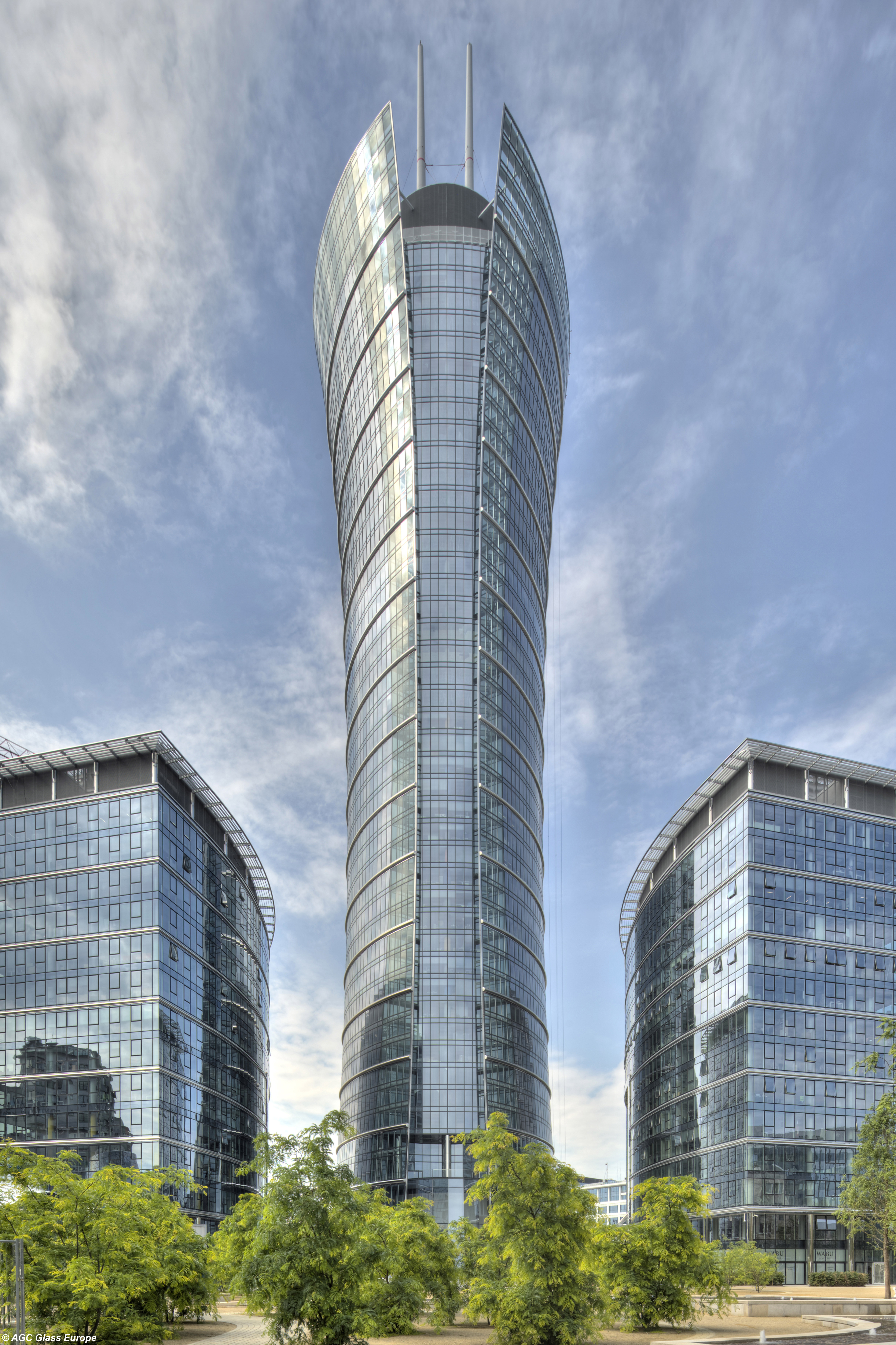 1The Warsaw Spire is a complex of Neomodern office buildings in Warsaw, Poland constructed by the Belgian real estate developer Ghelamco. It consists of a 220-metre main tower with a hyperboloid glass facade, Warsaw Spire A, and two 55-metre auxiliary buildings, Warsaw Spire B and C. The main tower is the second tallest building in Warsaw and also the second highest in Poland.